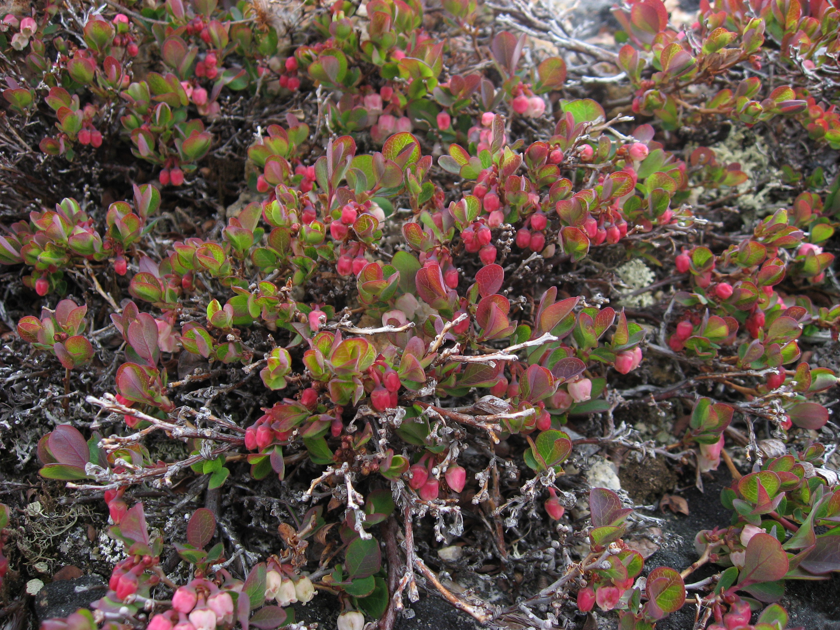 Bog Blueberry (Vaccinium uliginosum) photographed in midnight sun in Upernavik, Greenland